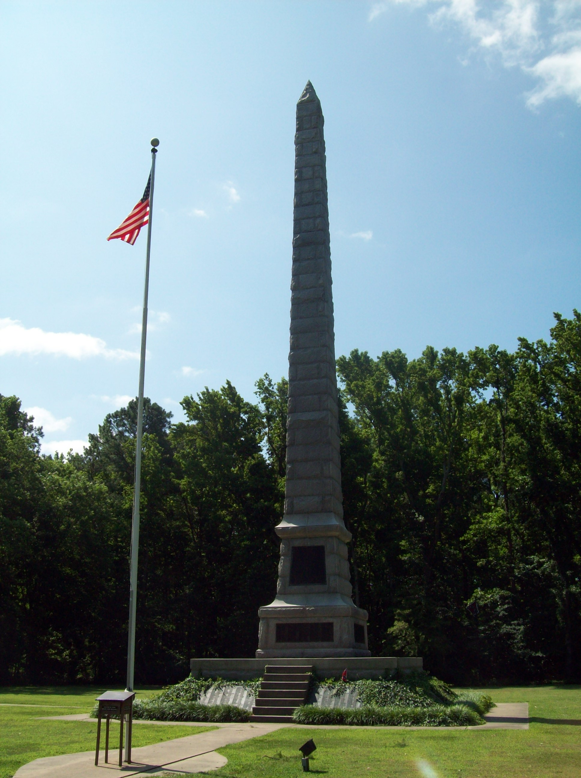 Point Lookout Confederate Cemetery Monument, July 2009